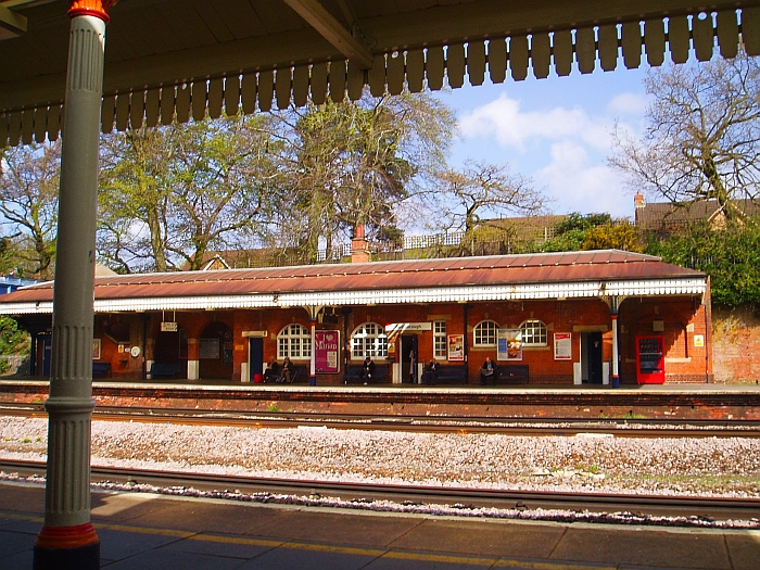 Farnborough (Main) railway station